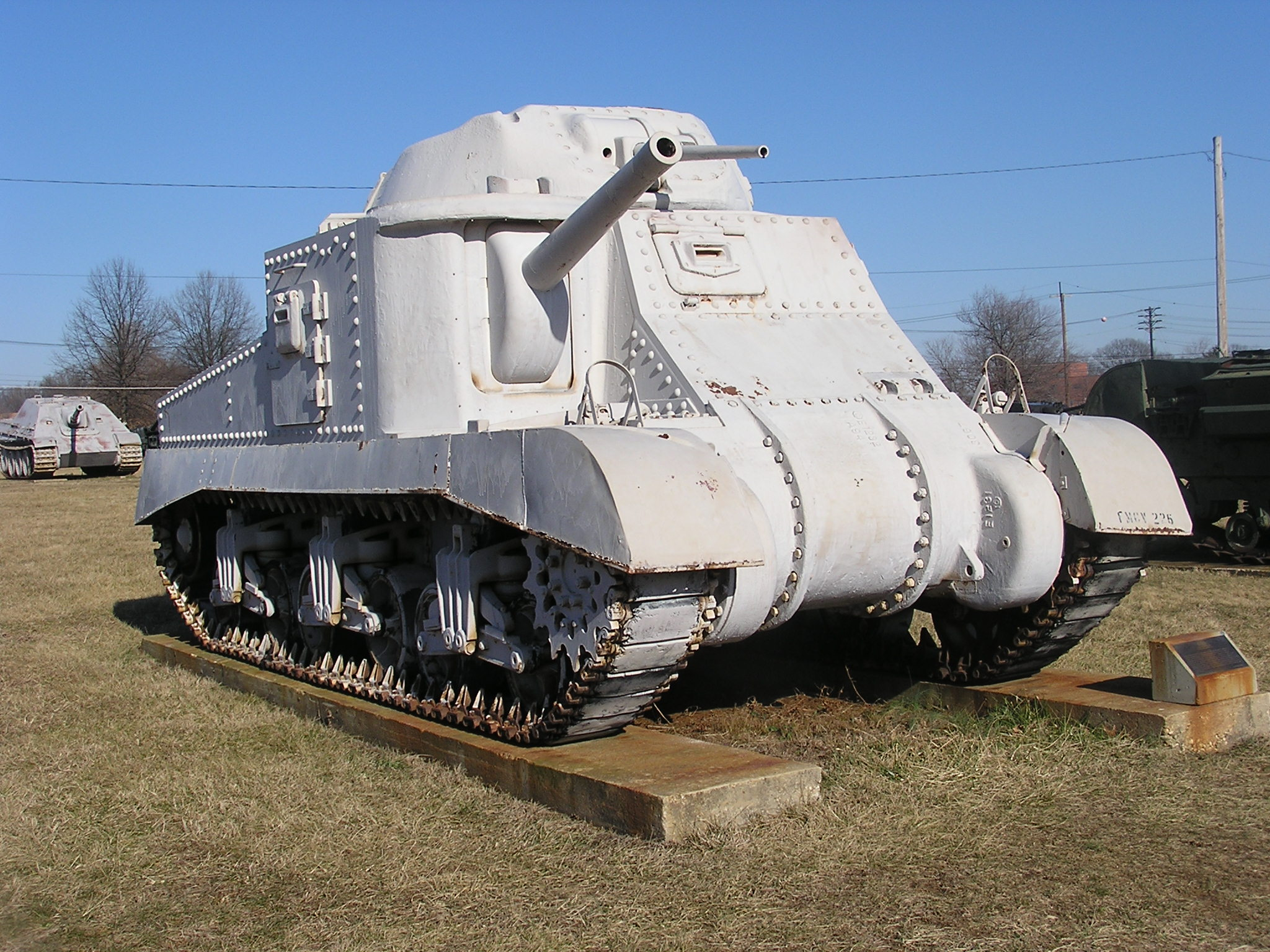 Taken at U.S. Army Ordnance Museum, Aberdeen Proving Ground, Aberdeen, Md.